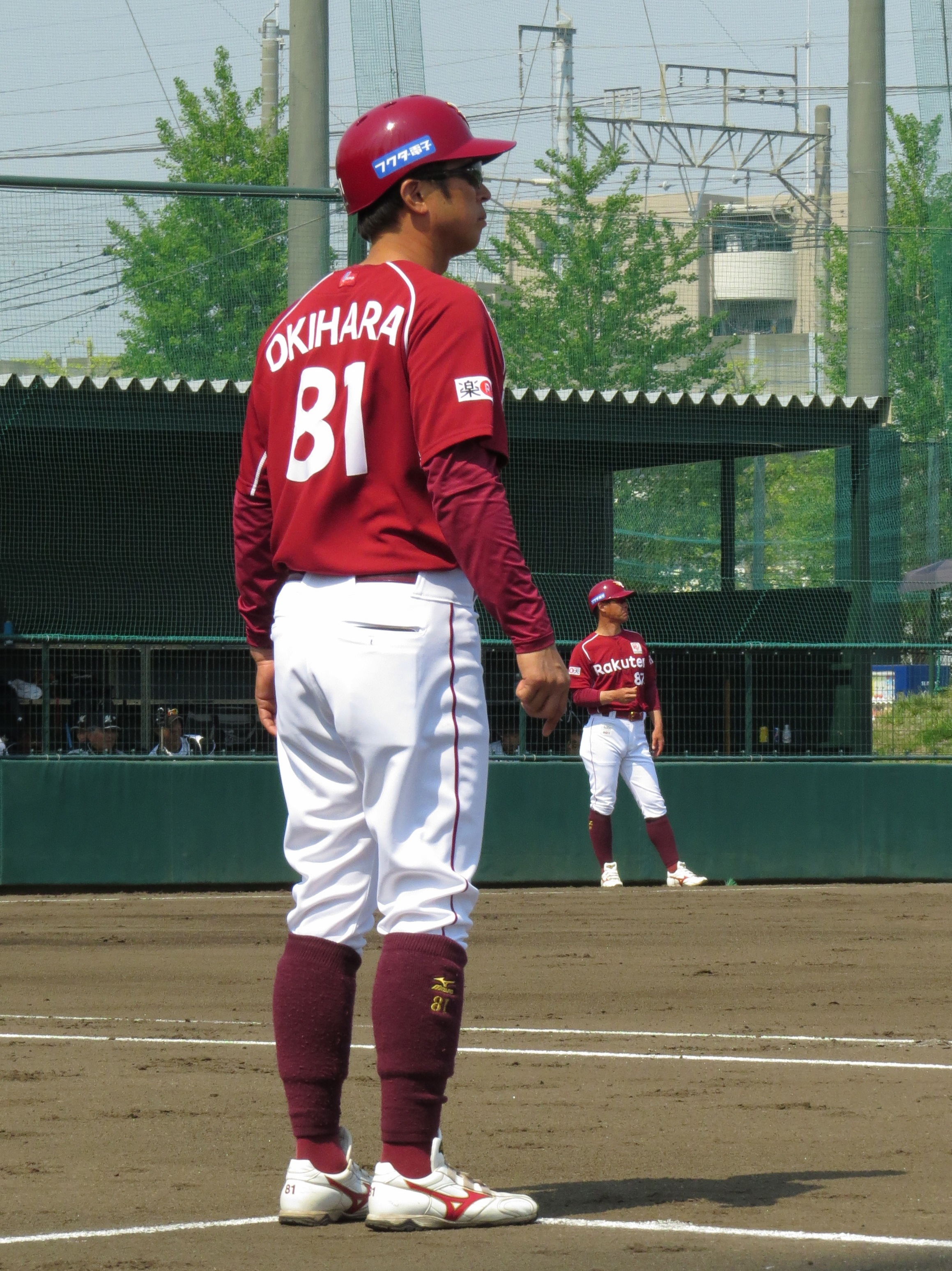 Yoshinori Okihara, coach of the Tohoku Rakuten Golden Eagles, at Lotte Urawa Baseball Ground.